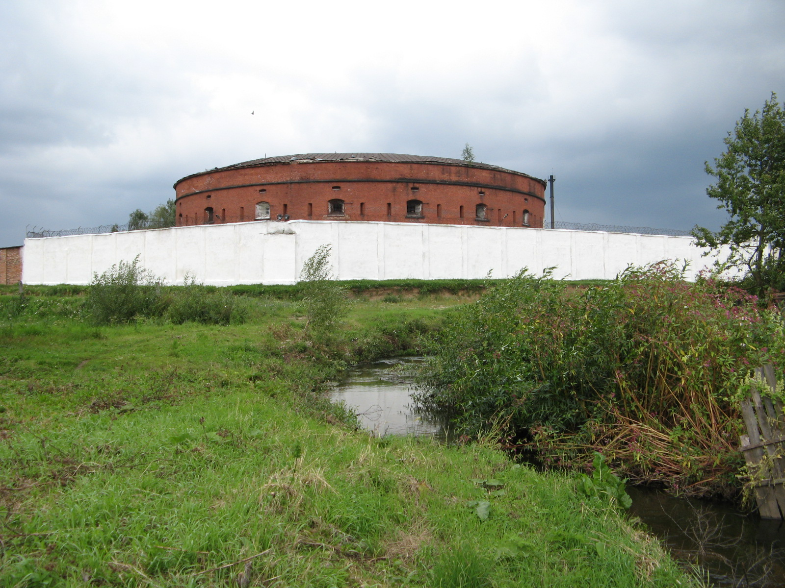 Babruysk fortress and the Babrujka river